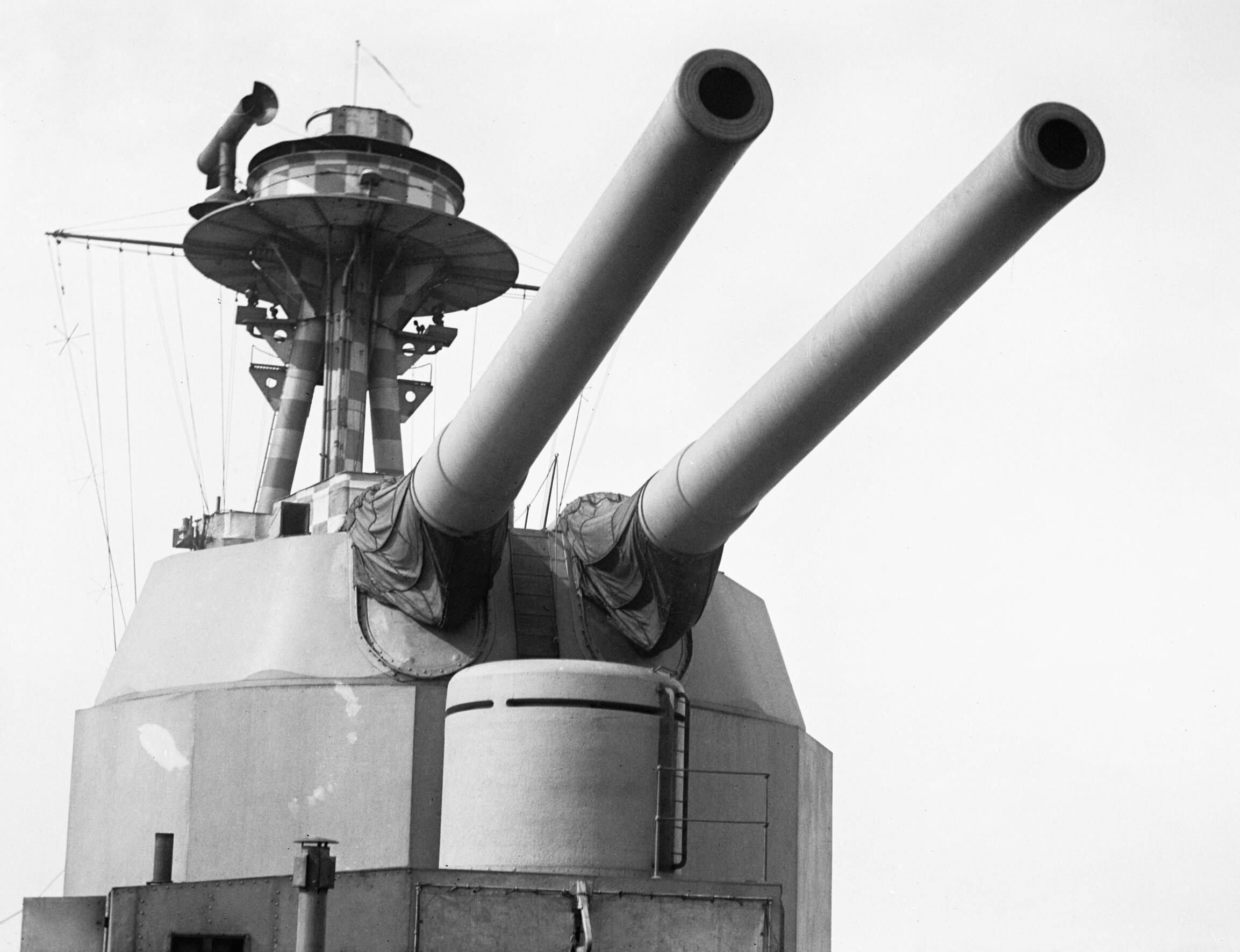 IWM caption : "The 15-inch guns on the monitor HMS TERROR, 1915. Note the smoke producer on the control top."